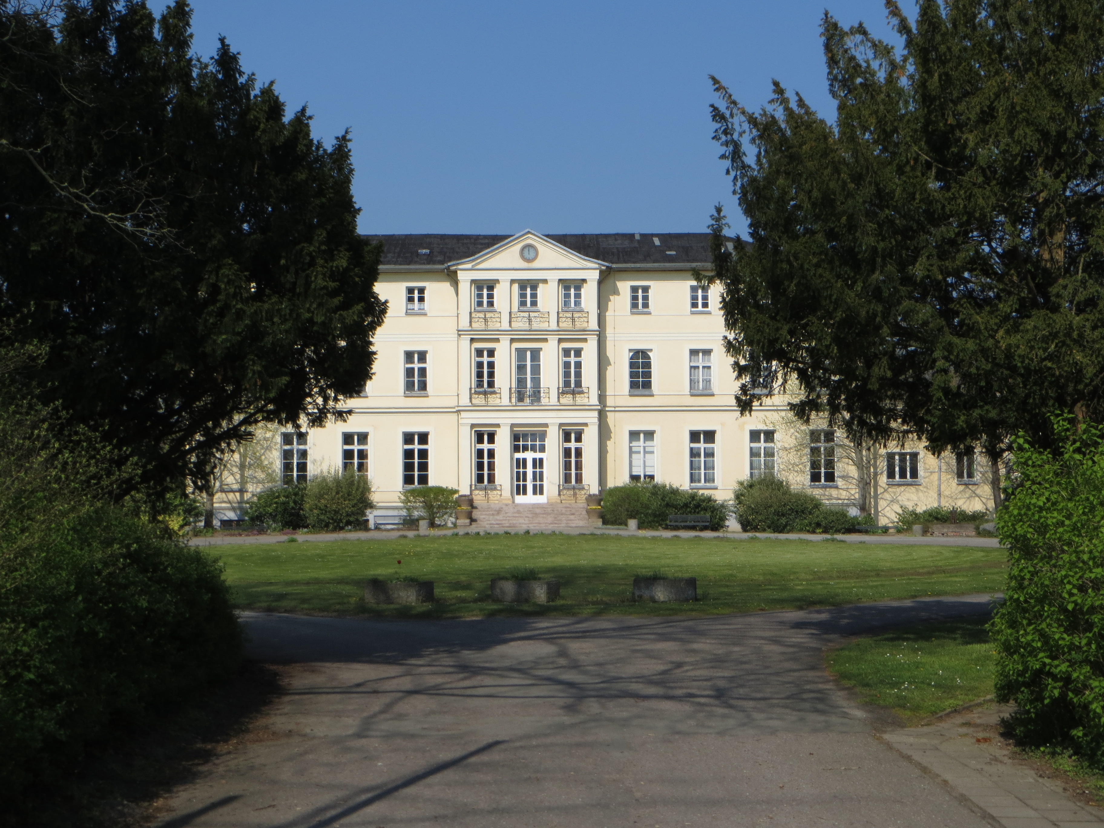 Zierow Herrenhaus